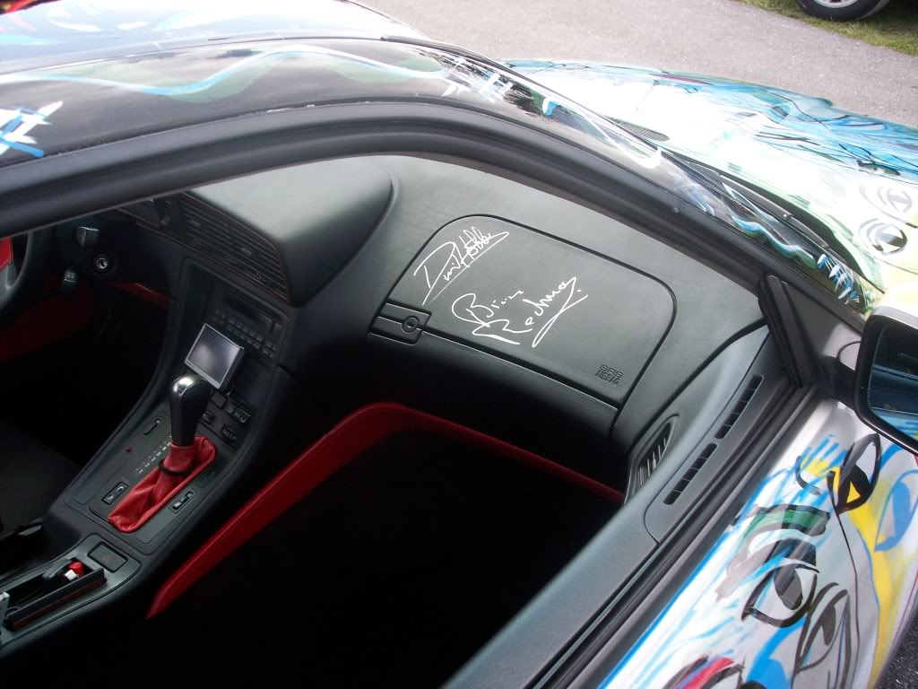 signatures on the BMW art car dash signed by Brian Redman and David Hobbs.